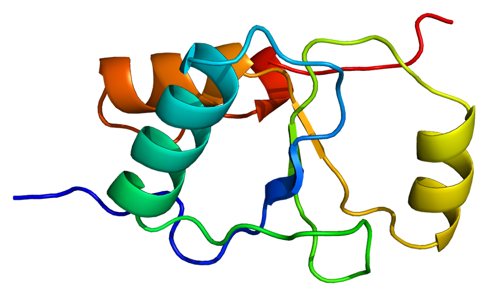 Structure of the XRCC1 protein. Based on PyMOL rendering of PDB 1cdz.